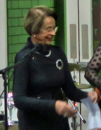 Anne Levy at presentation of AHOY to Gillian Triggs April 2018